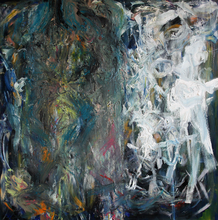 Liis Koger (1989- ). The Player of Light. 2013. Oil on canvas